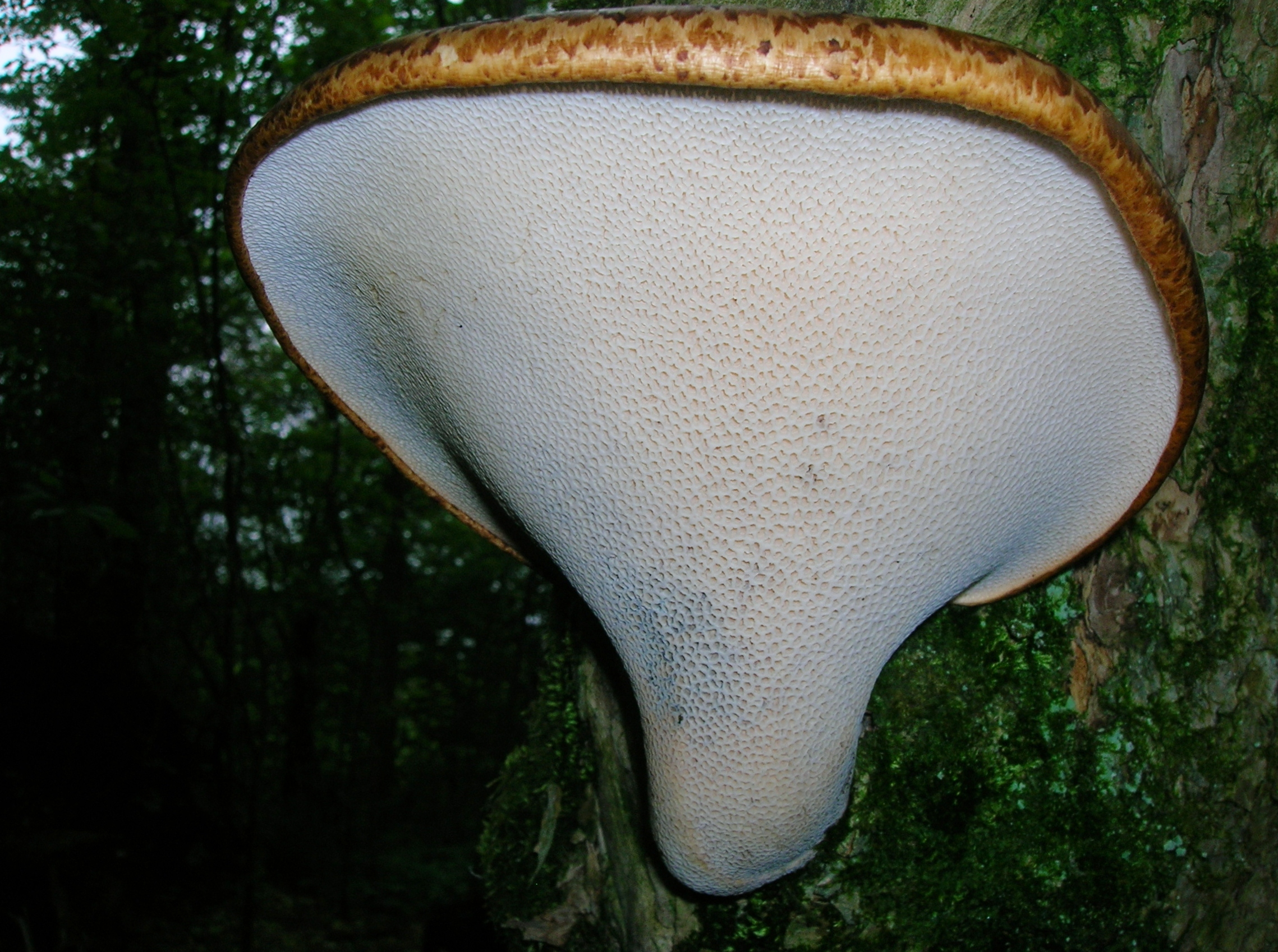 A Dryad's Saddle on Elder at Spier's, North Ayrshire, Scotland